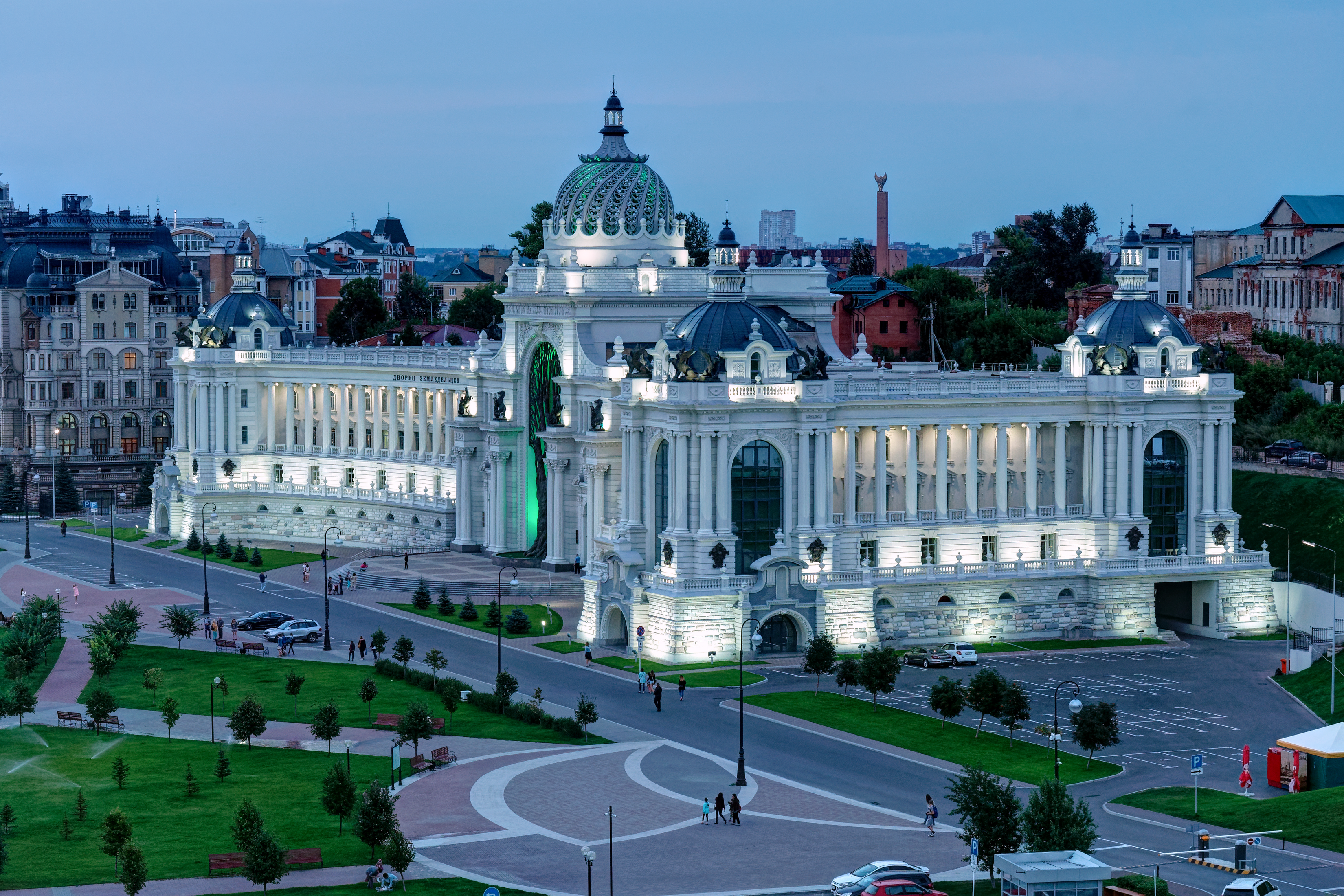 Kazan. Agriculturers palace